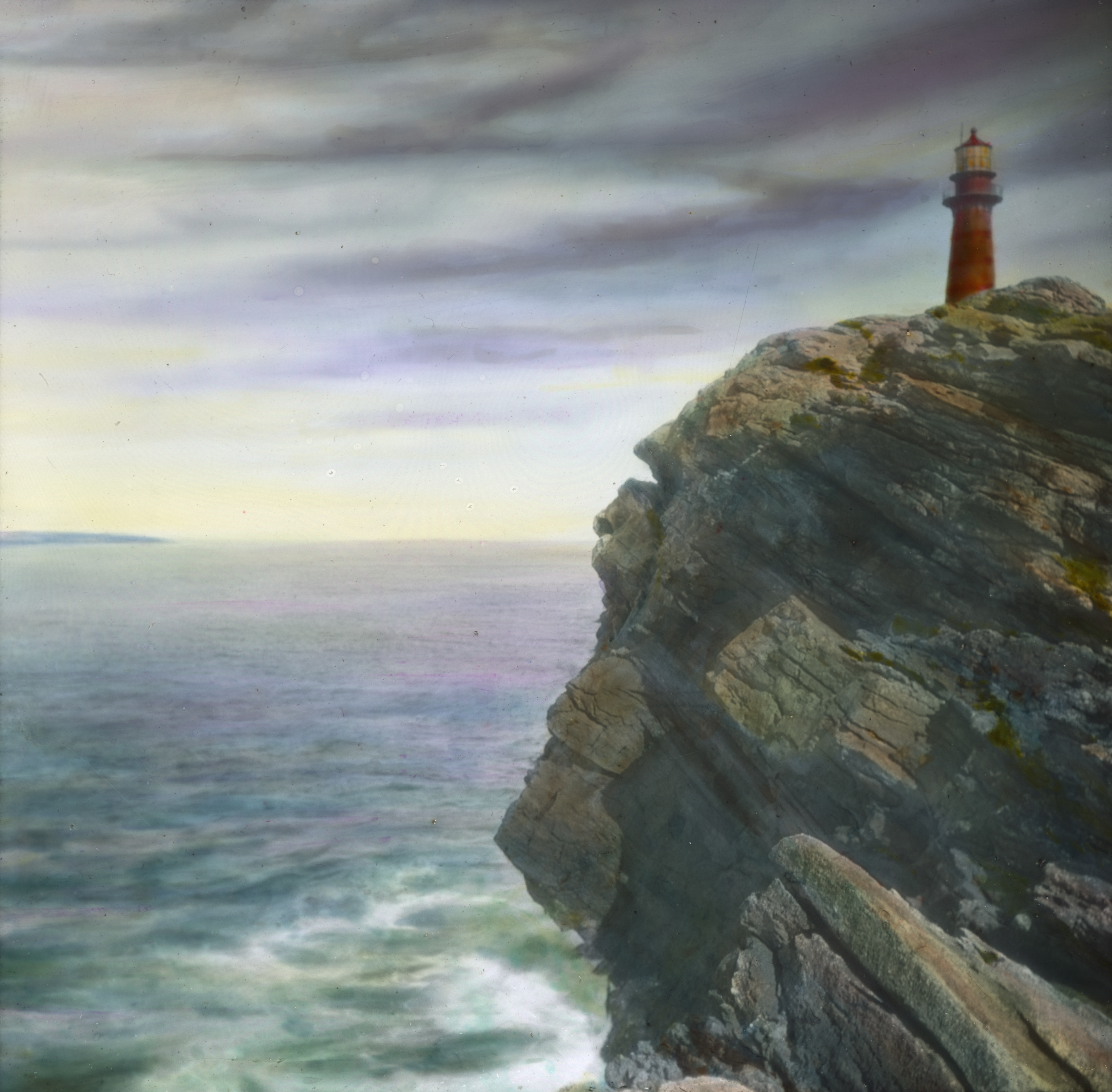 Hand colored slides. Skomvær lighthouse on the island Skomvær extremity of the Lofoten islands. The lighthouse was built in 1887 and automated in 1978.